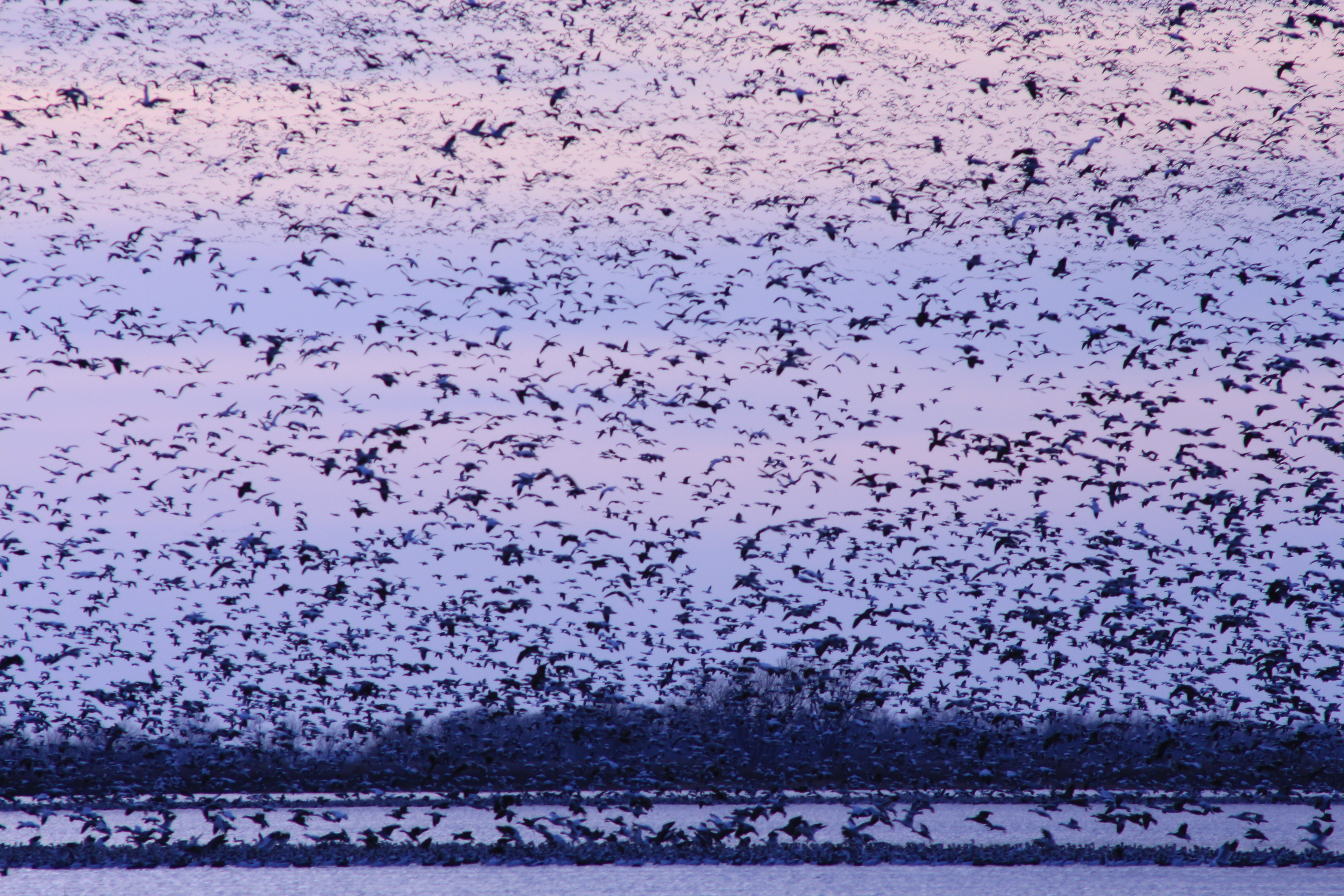 An early migration north for snow geese, as seen at Squaw Creek National Wildlife Refuge in northwest Missouri on February 17th, 2013. Days later, the geese turned back south with the onset of the February 2013 Great Plains blizzard.